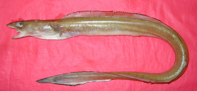 Rhynchoconger trewavasae collected in Balochi, Pakistan